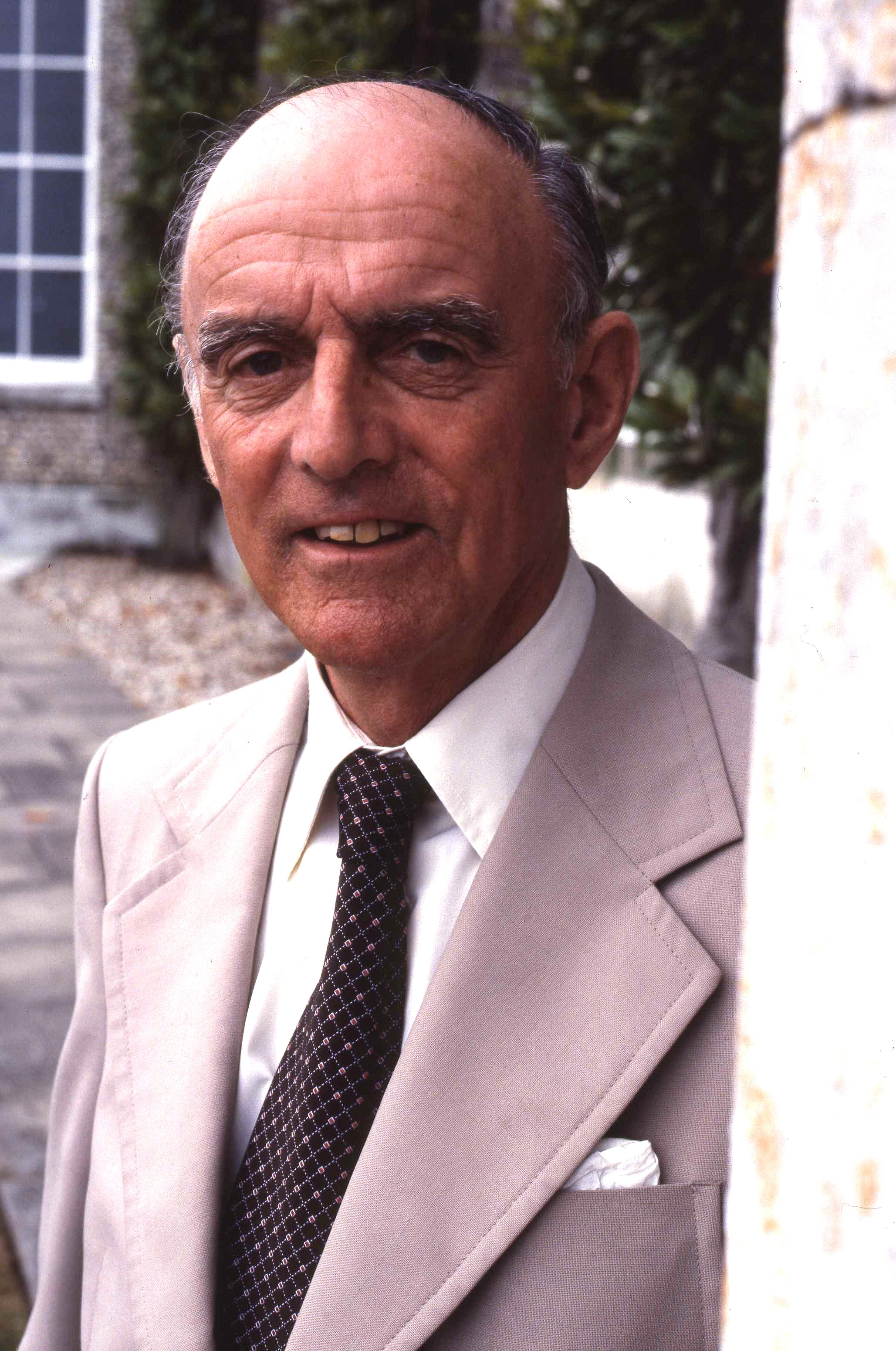 9th Duke of Richmond & Gordon 4th Duke of Lennox